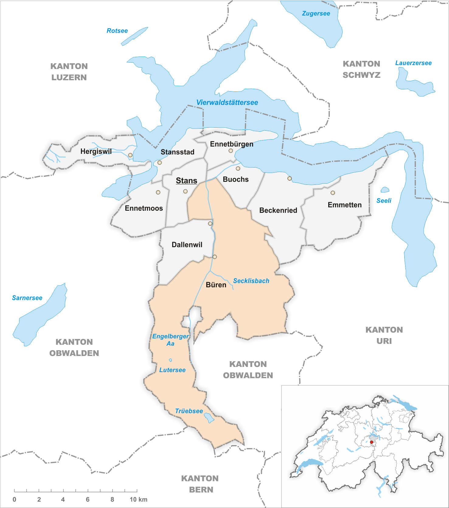 Municipality Büren Artist: Tschubby